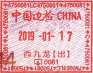 The exit stamp of Xijiulong Port of Mainland China at Hong Kong West Kowloon Station on Page 44 (Hong Kong themed) of the People’s Republic of China Passport